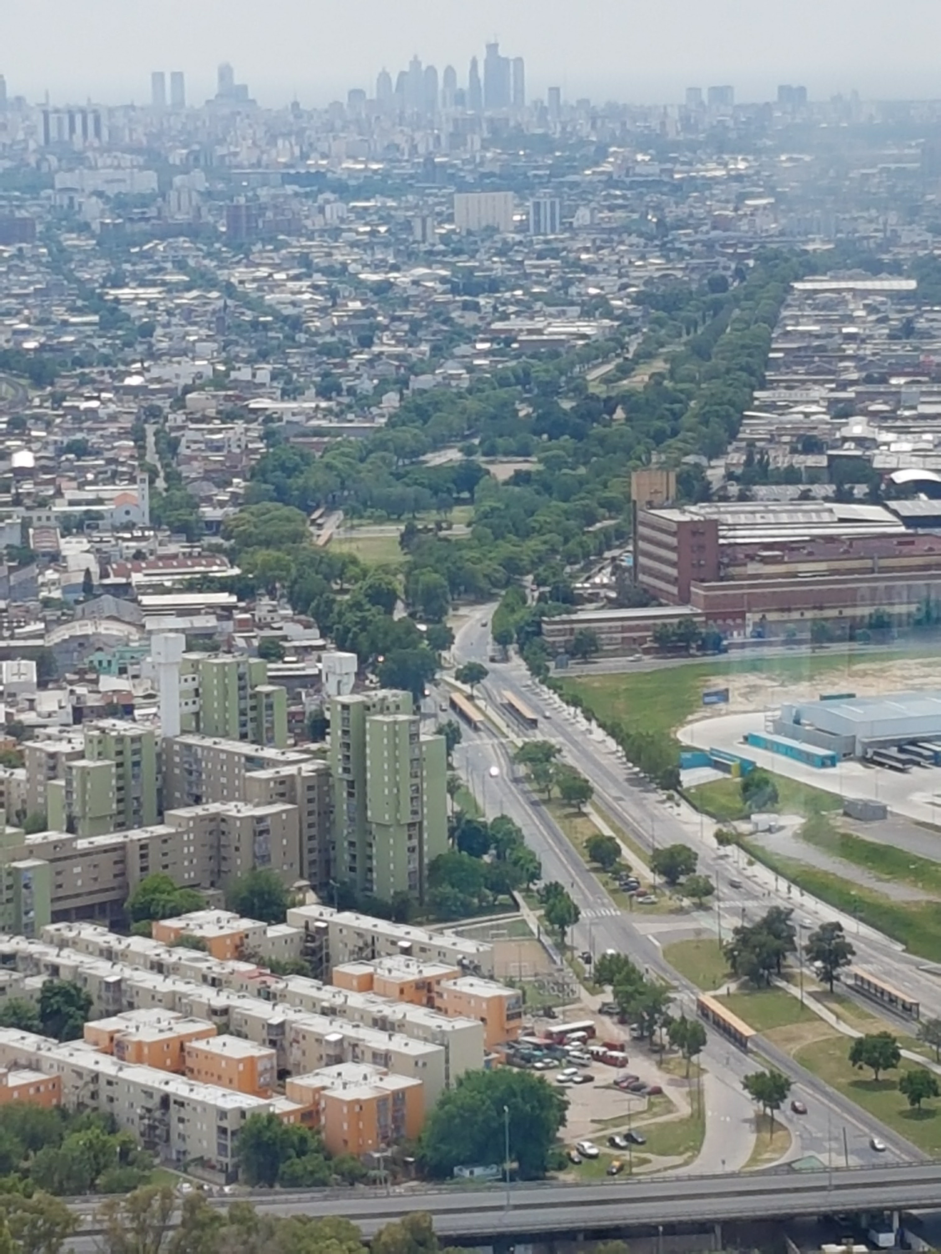 View of Buenos Aires from the Torre Espacial (Space Tower), in the Villa Soldati section. Leafy Francisco Rabanal Boulevard is visible in the middle.